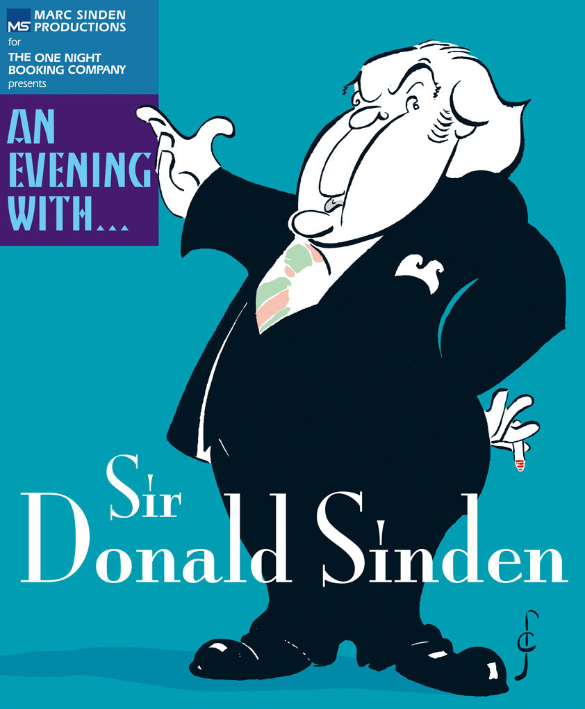 Theatrical poster